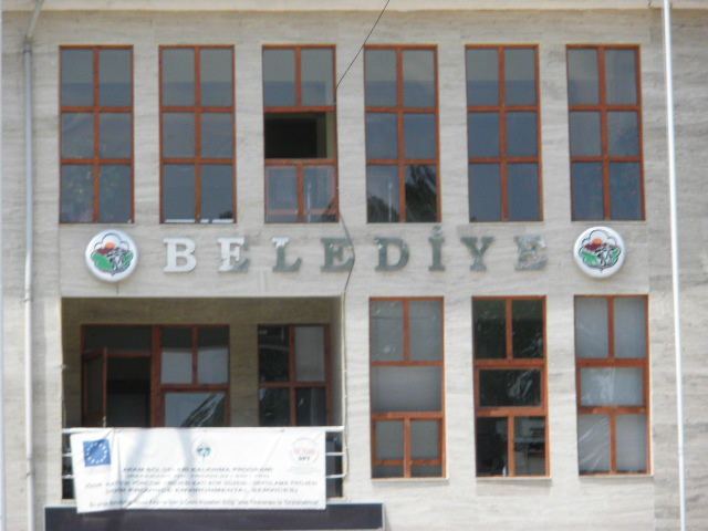 Iğdır city hall